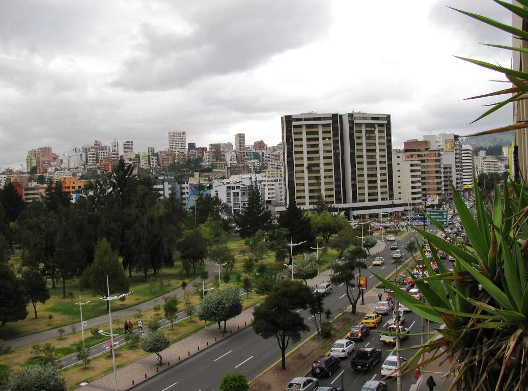 La Carolina Park